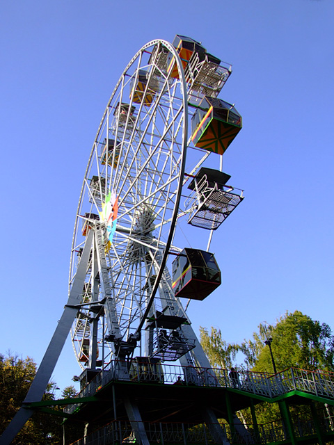 Krasnogorsk